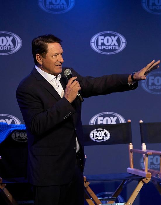 Chris Myers Sports Broadcasting